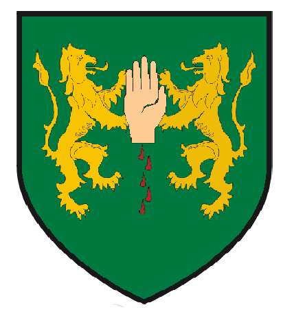 Recreation of the O'Reilly (Uí Raghallaigh) Coat of Arms (Custom)